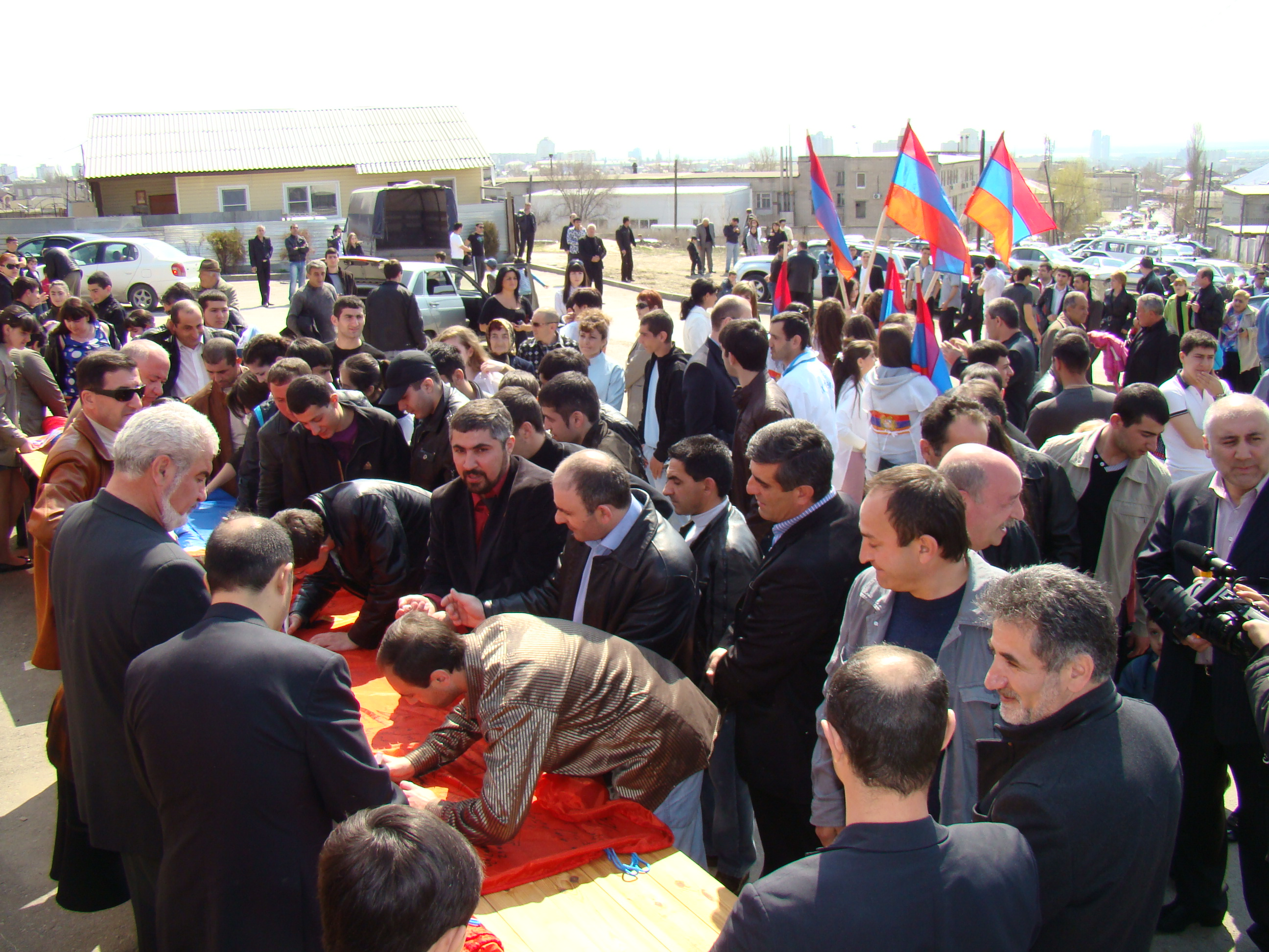 Armenian Genocide Day in Sourb Gevorg armenian Church